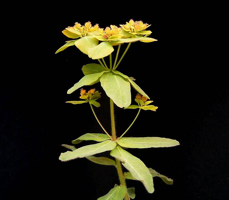 Euphorbia epithymoides